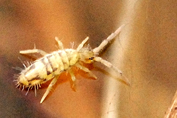 Entomobrya nivalis from Commanster, Belgian High Ardennes .